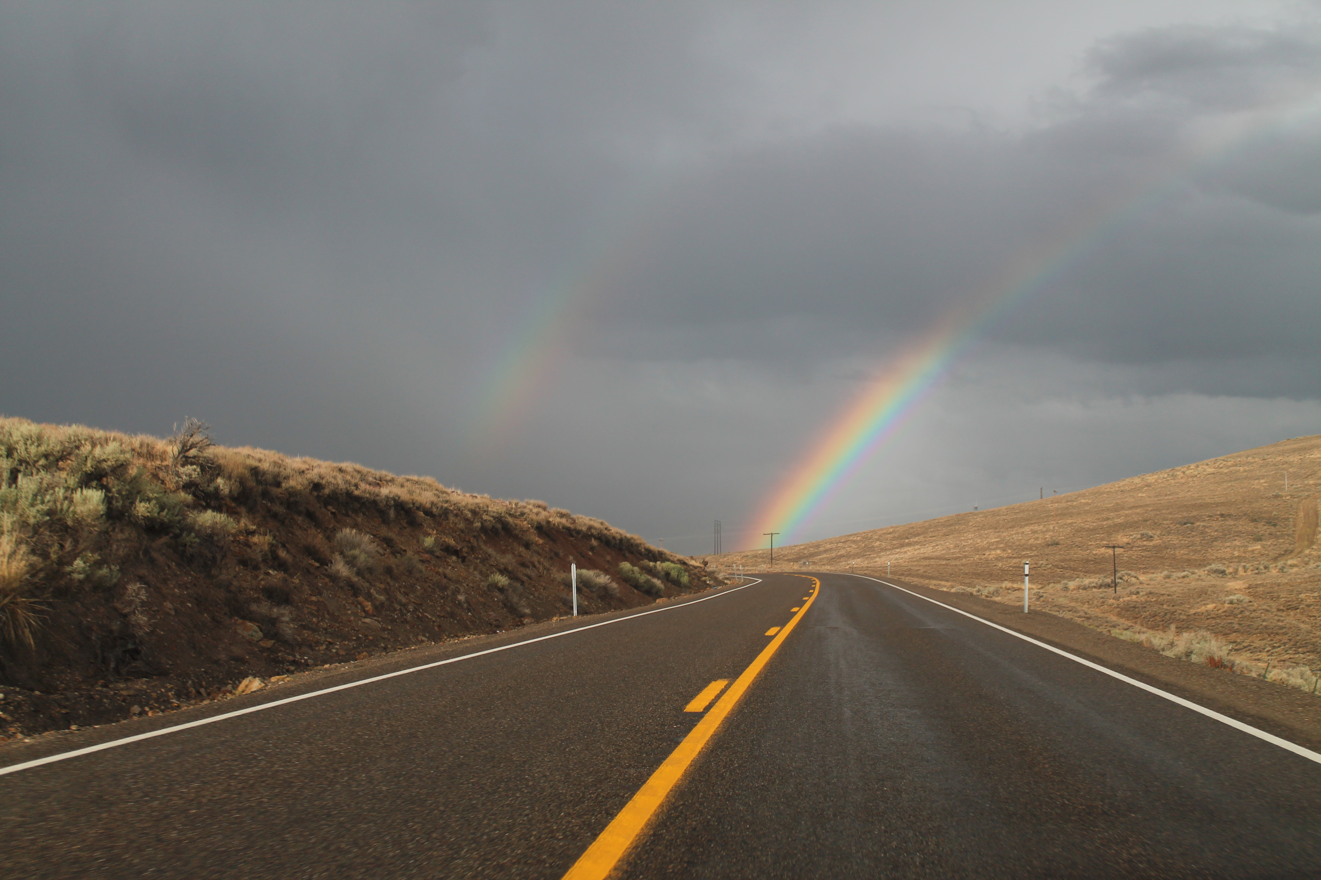 Mountain City Highway (225) Double Rainbow